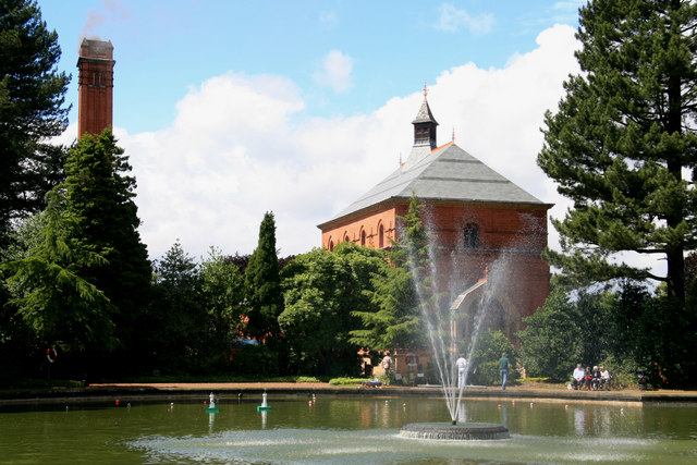 Papplewick Pumping Station One of the prettiest sites of its kind and greatly enhanced by a recent large lottery grant. The pond is for cooling rather than pure ornamentation. Many years since I had been here and it was a pleasant afternoon with lots of camera work.